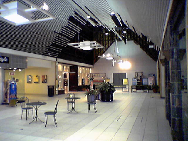 The Shops at Willow Lawn near Richmond, Virginia during a renovation project. A portion of the enclosed mall was demolished and made into an outdoor shopping center. The remainder of the enclosed mall was renovated.